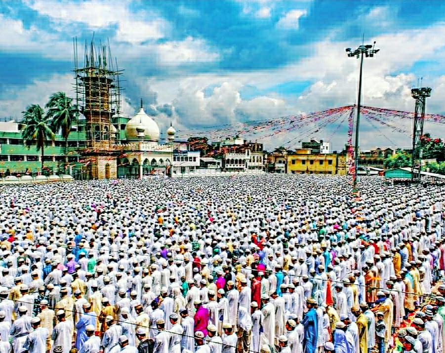 India's largest Eid Gah Field in Sujapur City, Malda